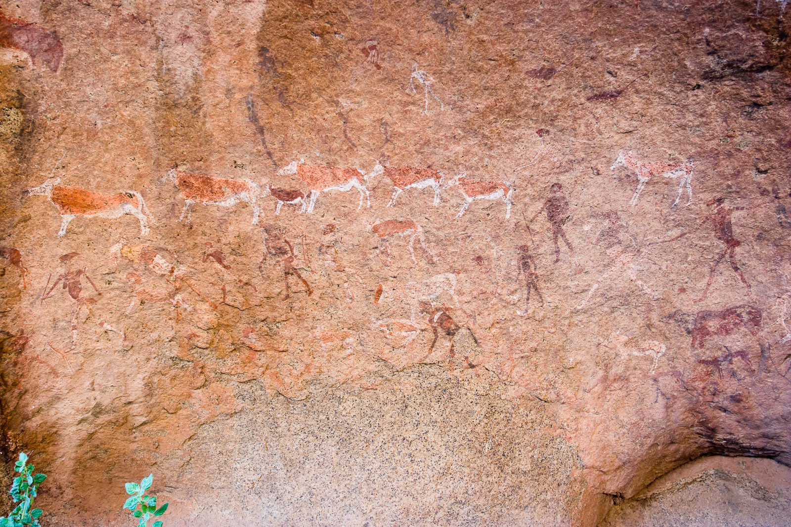 Rock Paintings, White Lady with Arrow